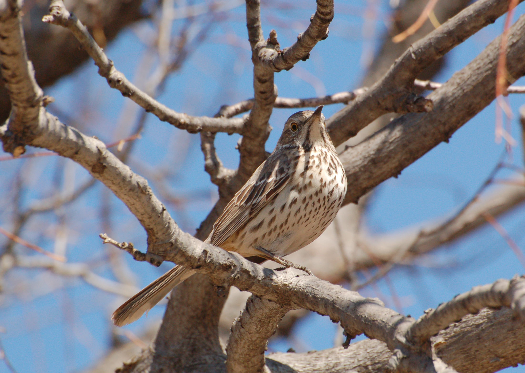 An adult Sage Thrasher on the north shore of Lake Harriet in Minneapolis, Minnesota, USA, which is much further east than its usual range.